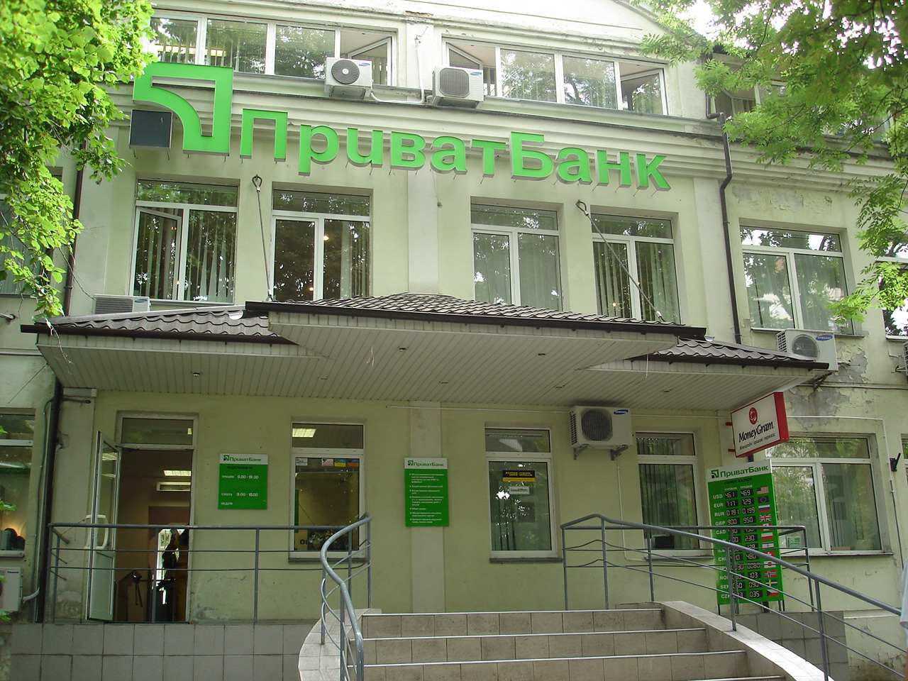 PrivatBank in Kyiv